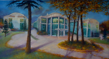 Low resolution copy of image of the front entrance of the National Physical Laboratory in Teddington drawn by Twickenham artist Lee Campbell.